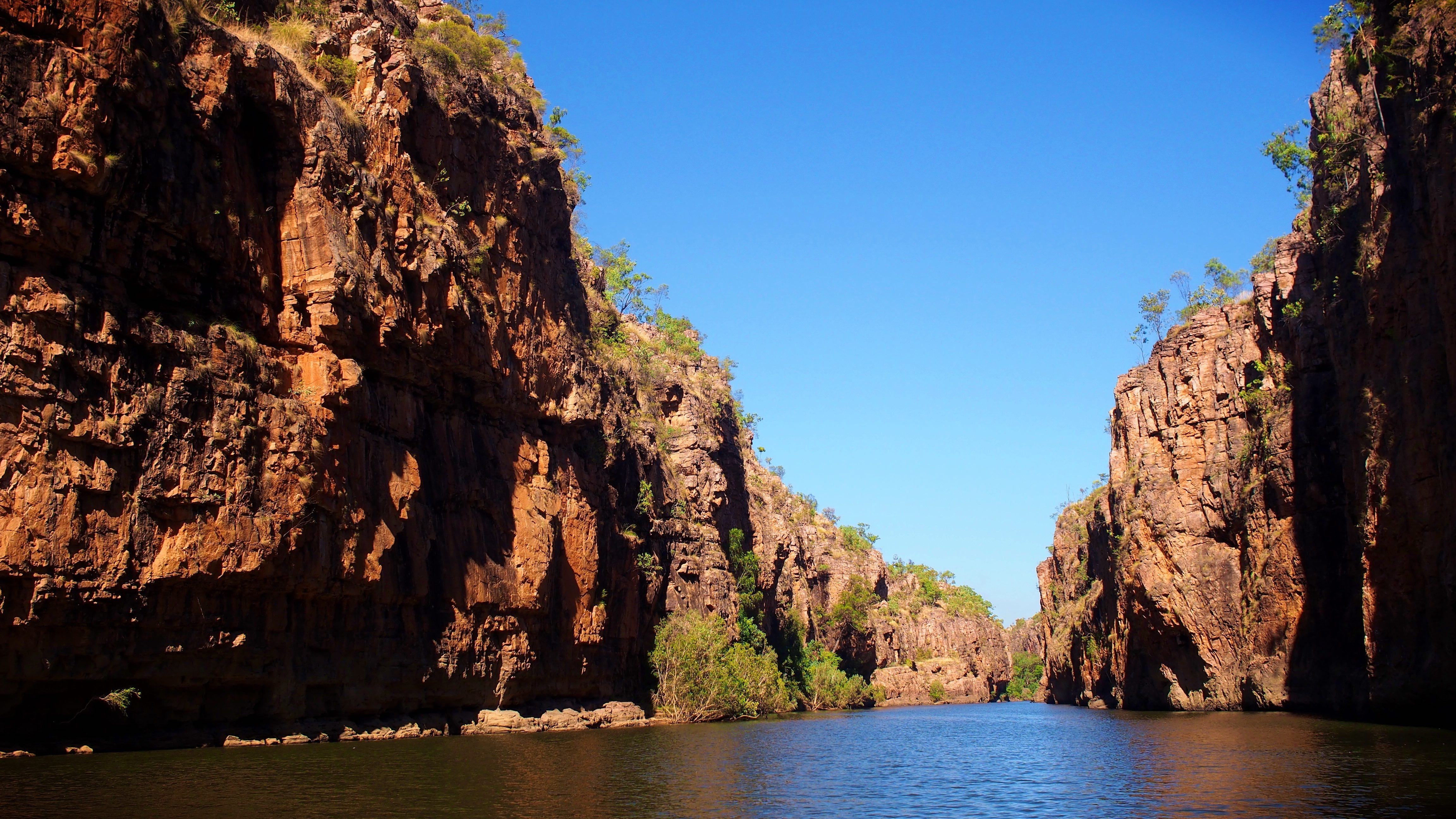 Katherine Gorge, Nitmiluk National Park, NT